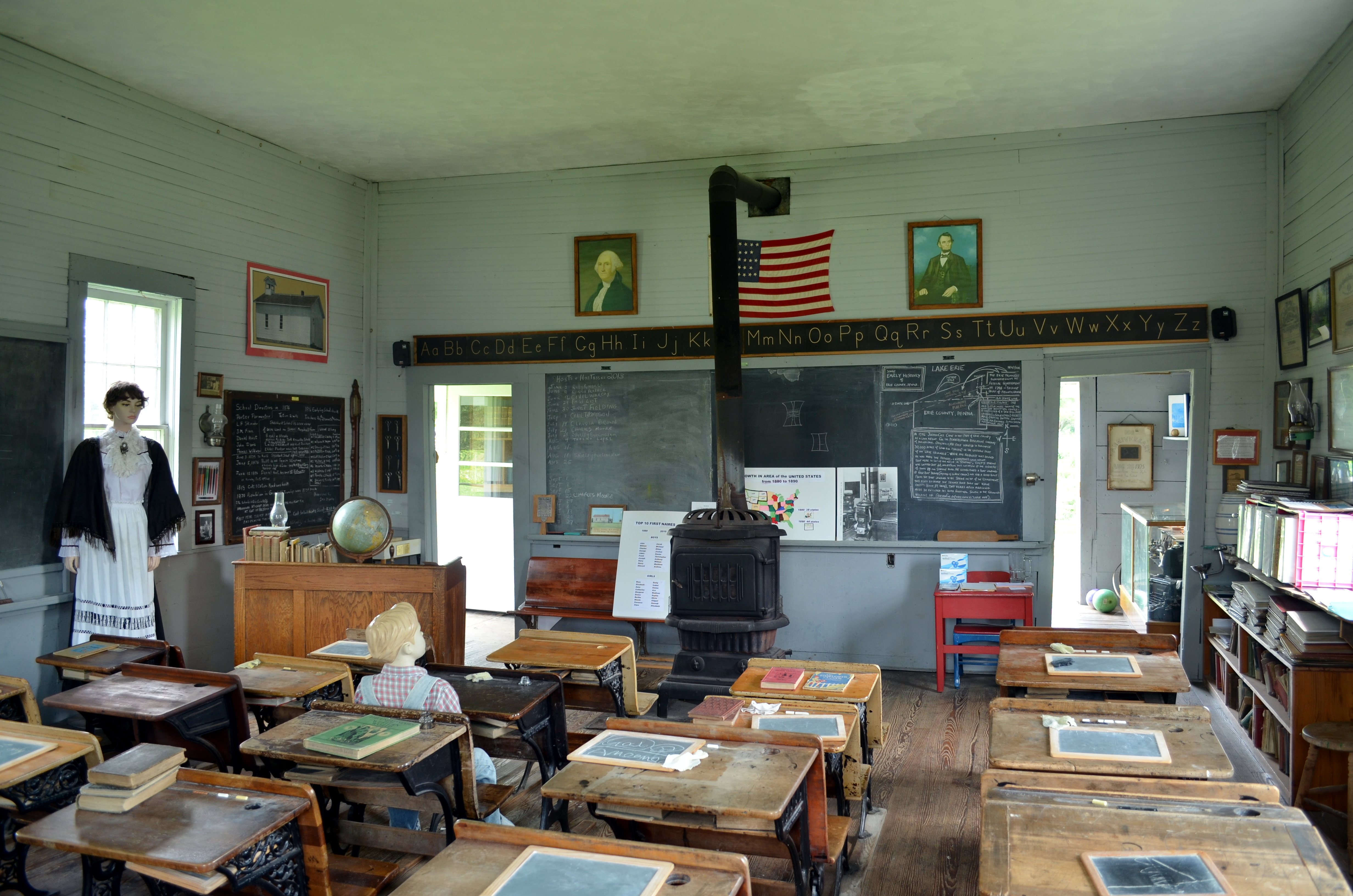 The interior of Hornby School in Greenfield Township, Erie County, Pennsylvania.